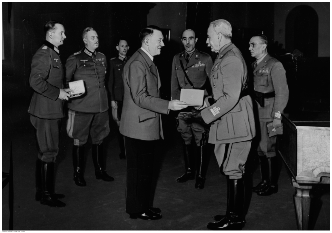 Adolf Hitler distinguishes General Italo Gariboldi with the Knight's Cross of the Iron Cross. Second from the left is Field Marshal Wilhelm Keitel.